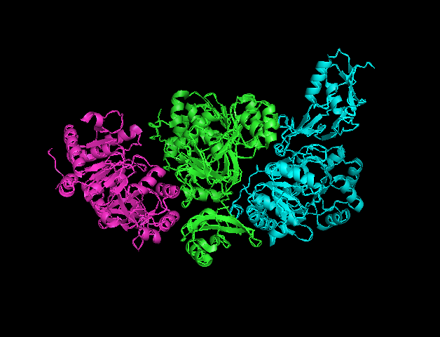 A PyMol cartoon representation of o-succinylbenzoate CoA-ligase